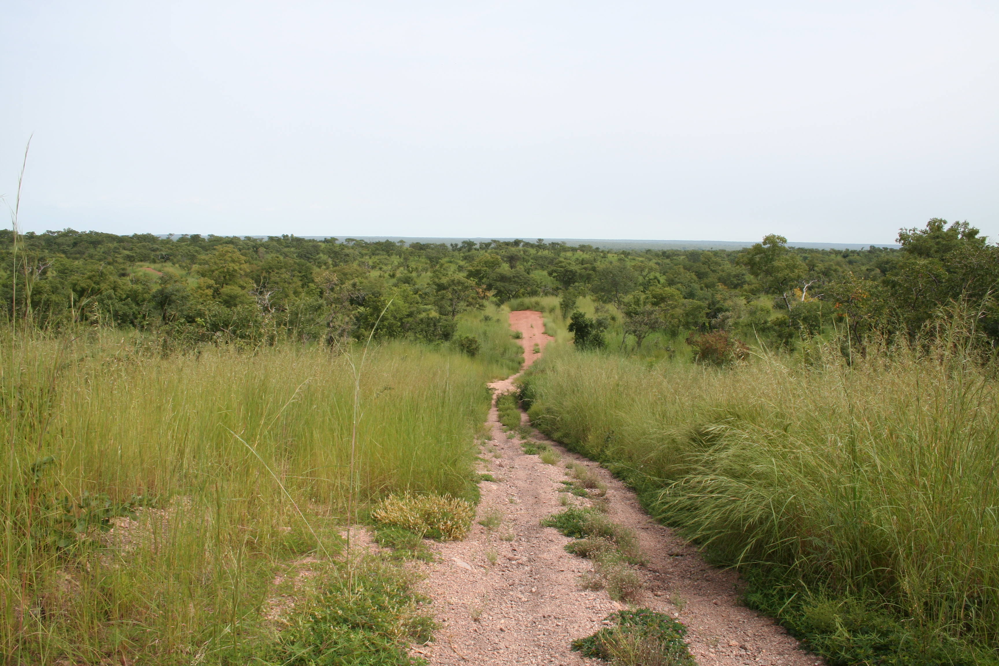 Savanna vegetation near Point Triple in the W National Park. Rainy Season.